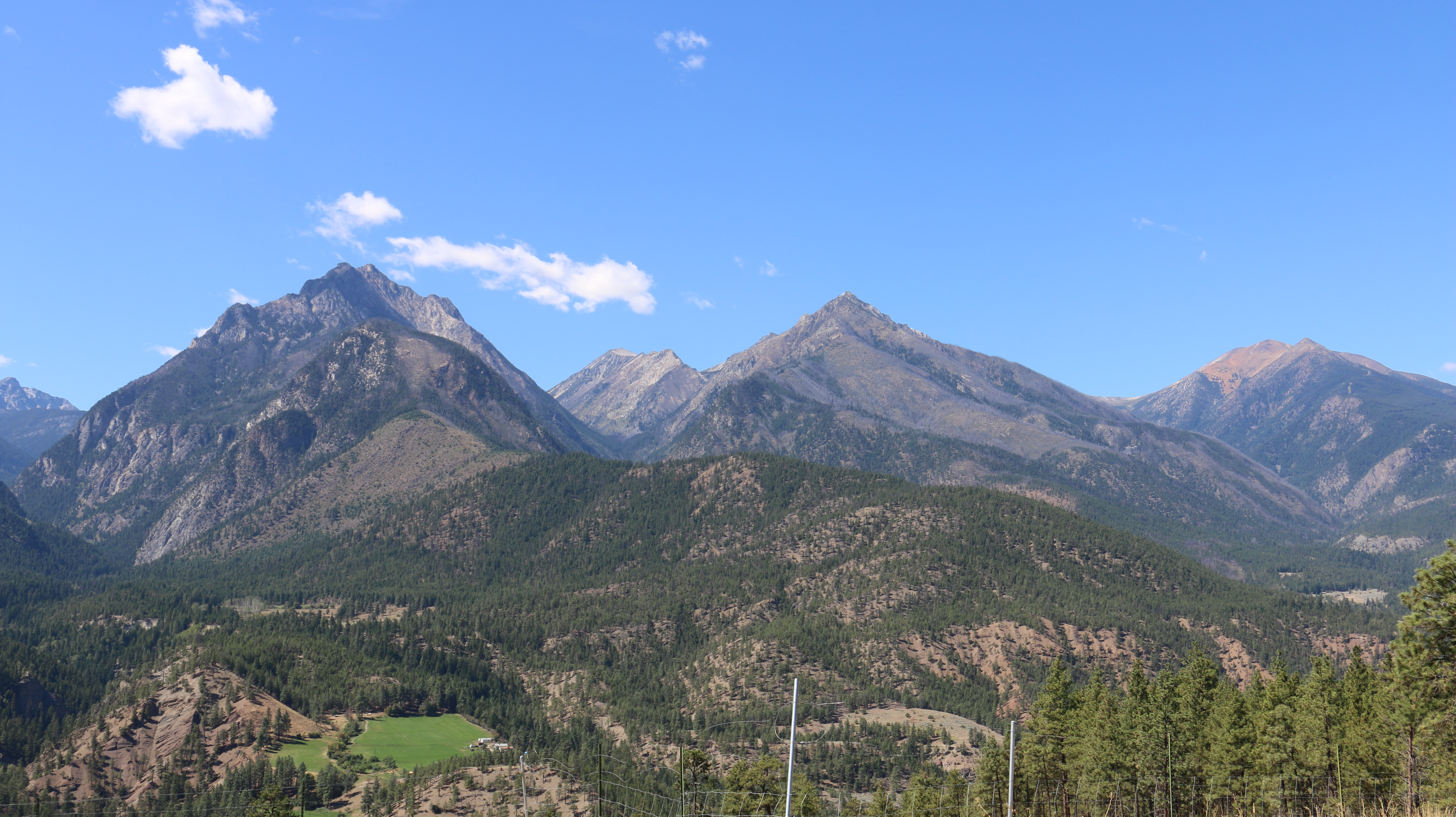 The Camelsfoot Range, in southwestern British Columbia. Taken from west of the Fraser River, north of Pavilion, B.C.